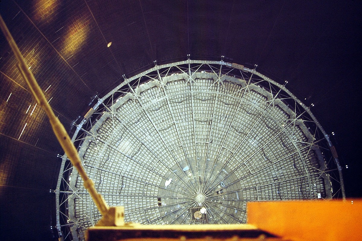 Vertical view down at the inside of the gas tank of Nuremberg (built 1954 by MAN, scrapped 1992) from a platform central mounted in the roof construction.